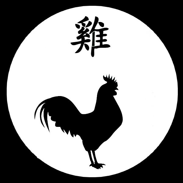 Signe astrologique chinois du Coq